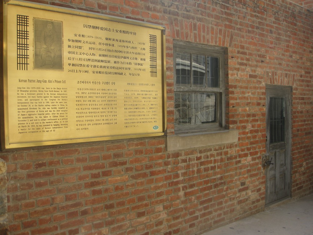 Prison cell of Korean patriot Jung-Gun Ahn